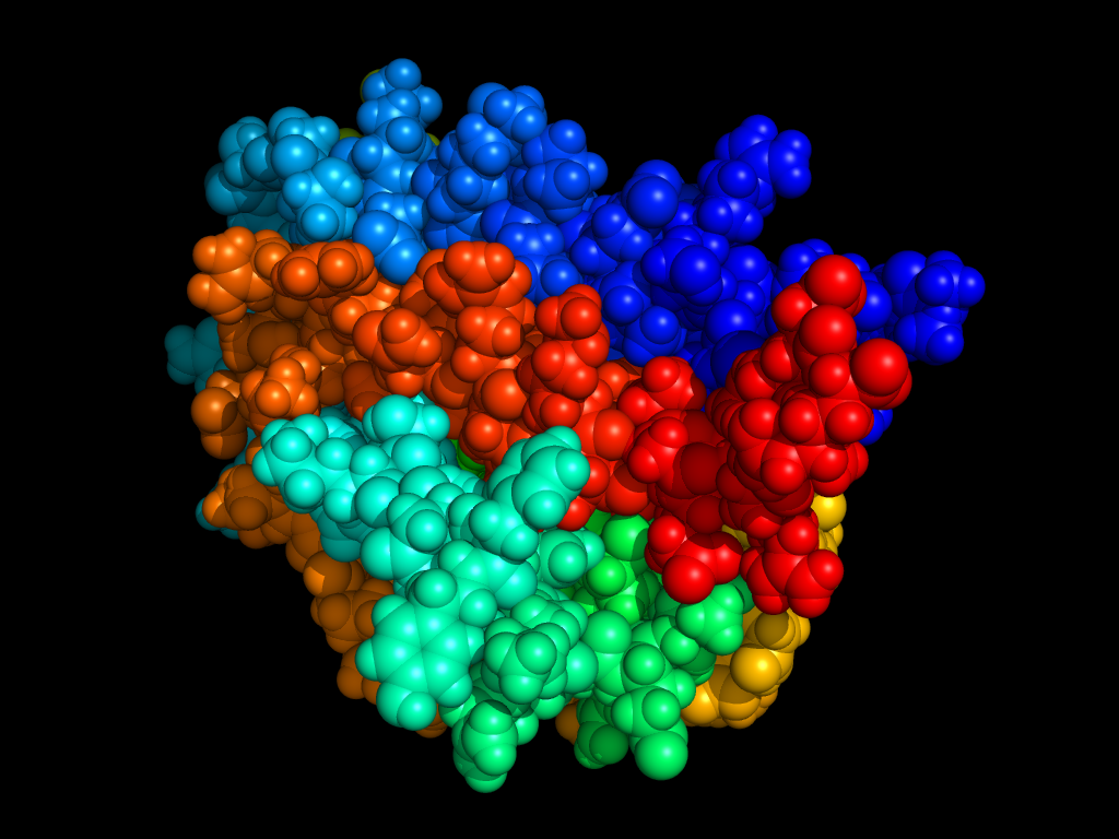 Erythropoietin Created with data set "1buy" from Protein Data Bank and the free program PyMOL.